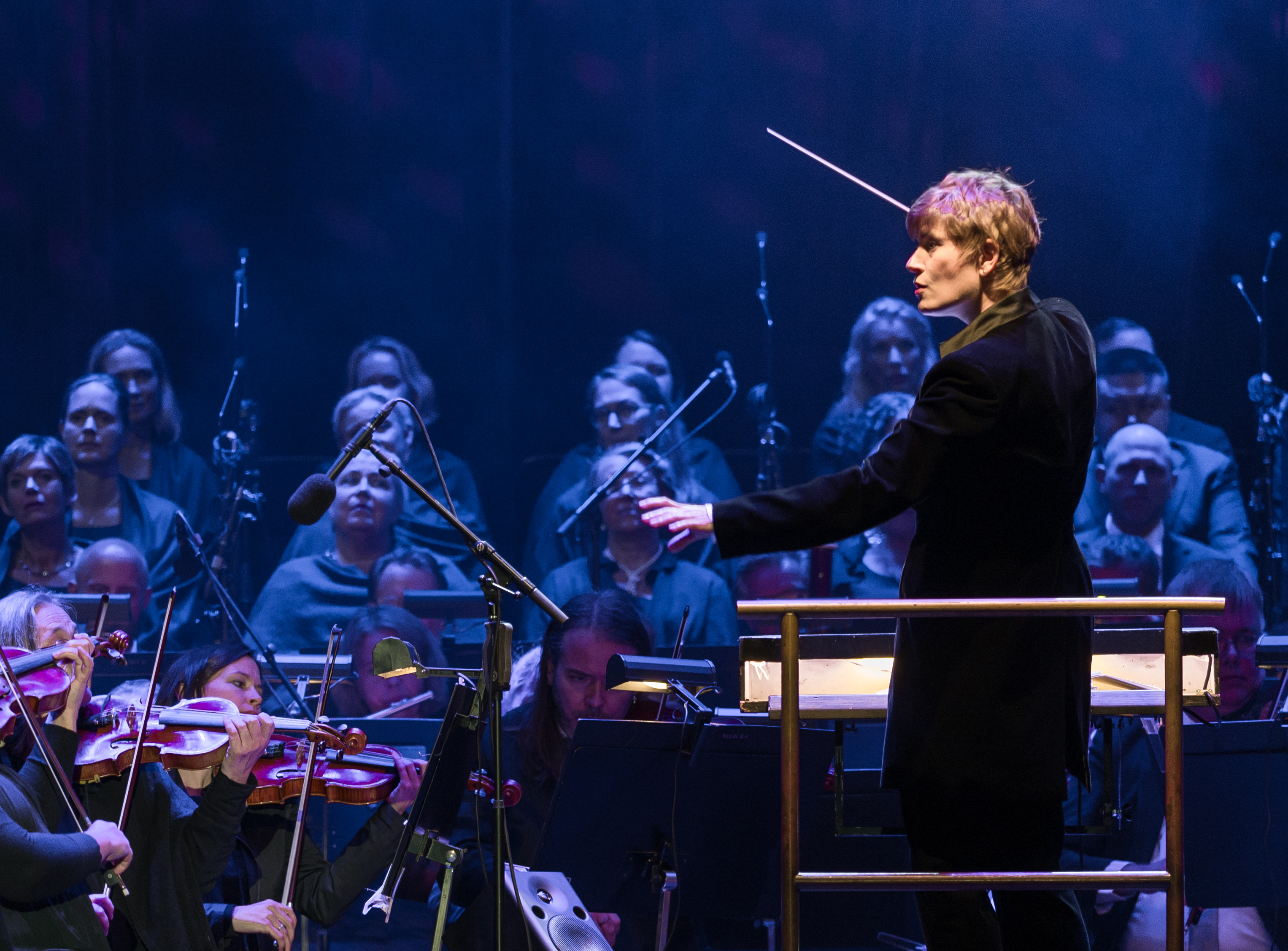 Anja Bihlmaier at Gustav Adolfs torg during Stockholm's cultural festival 2019. With the Royal Hov Chapel from the Stockholm Opera.